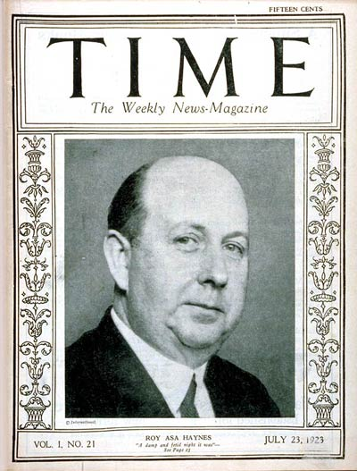 TIME Magazine Cover Featuring Roy Asa Haynes (23 Jul 1923)